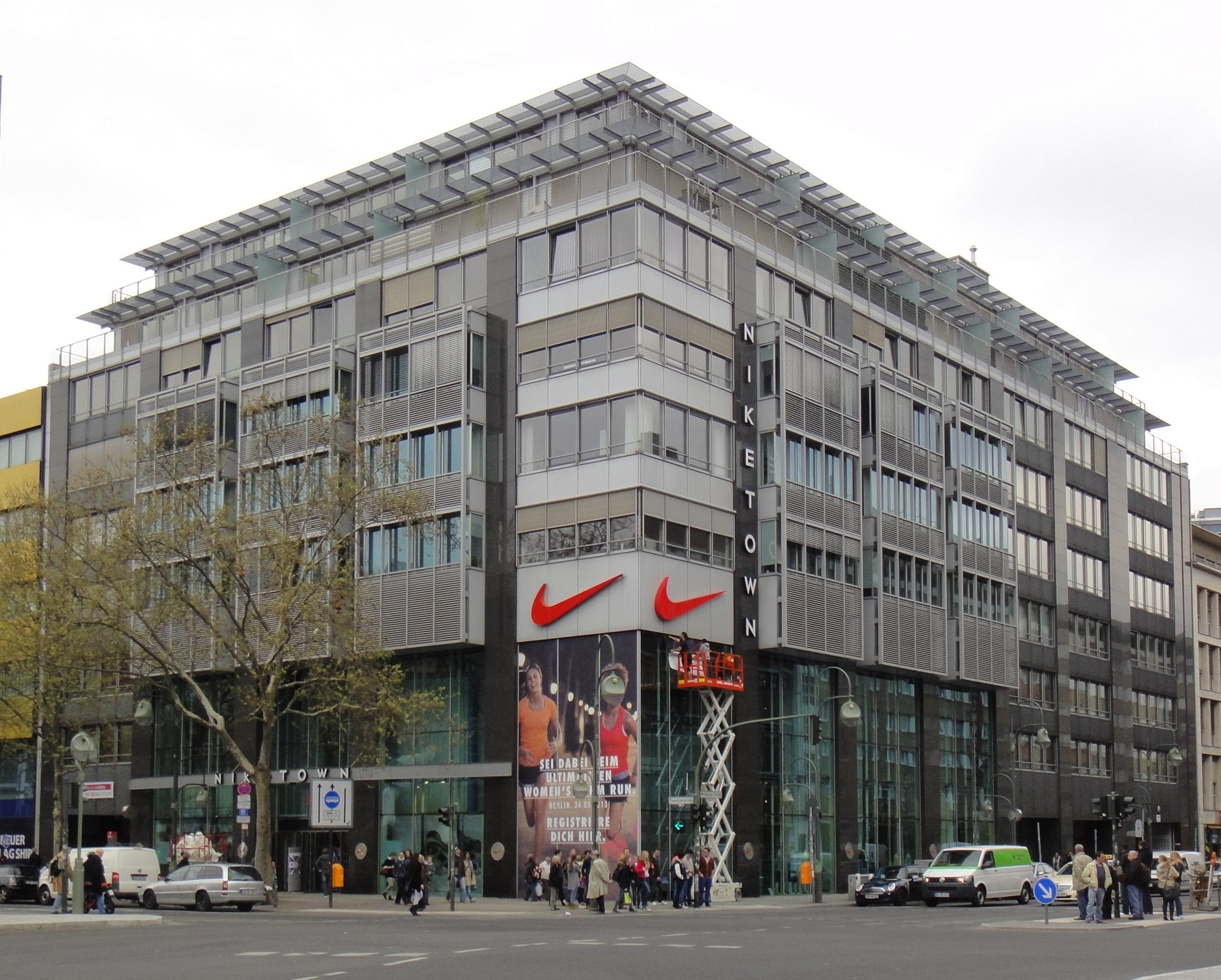 Niketown flagshopstore in Berlin in its last days. Nike moved out in June 2013.